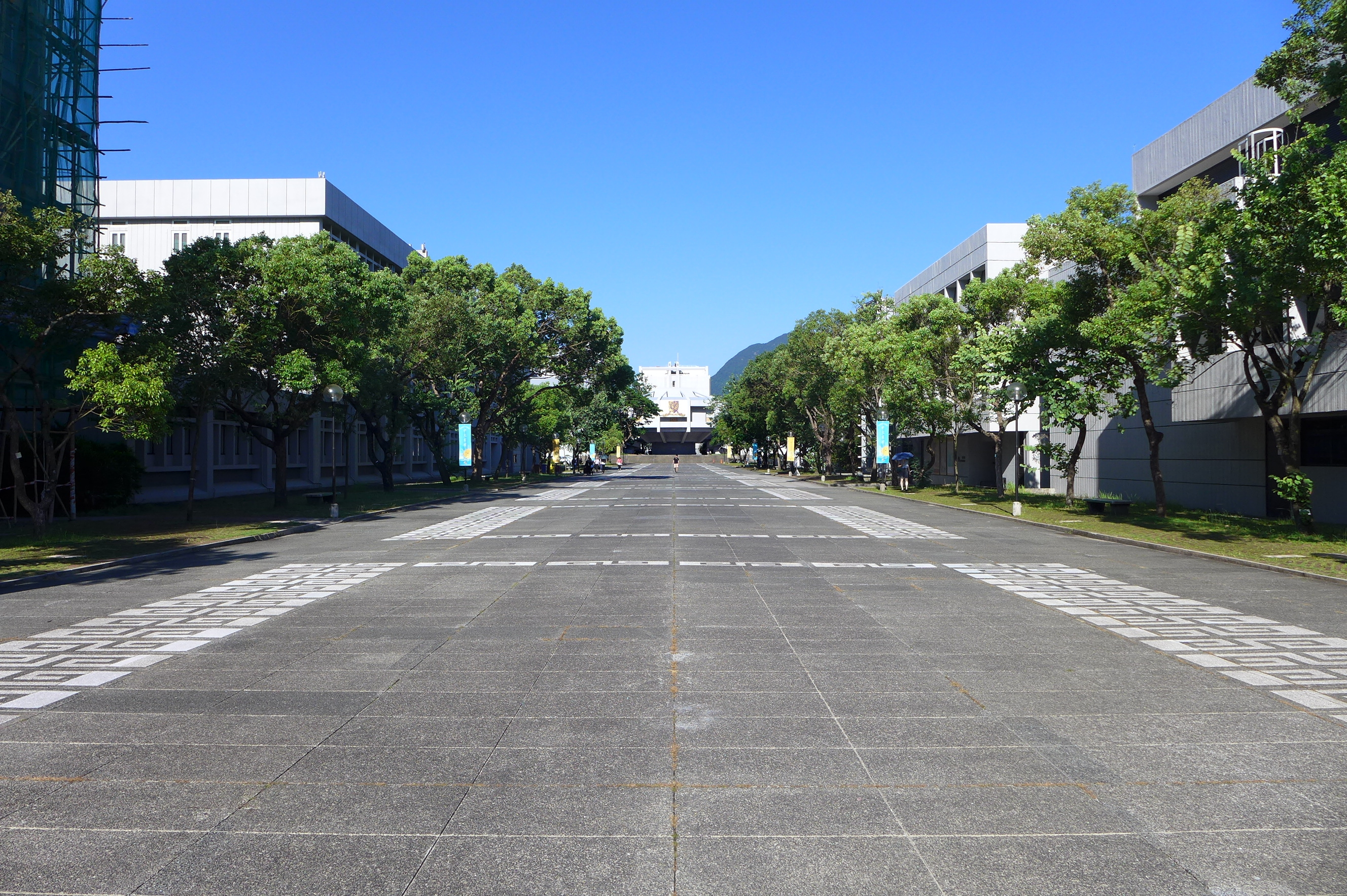 The University Mall